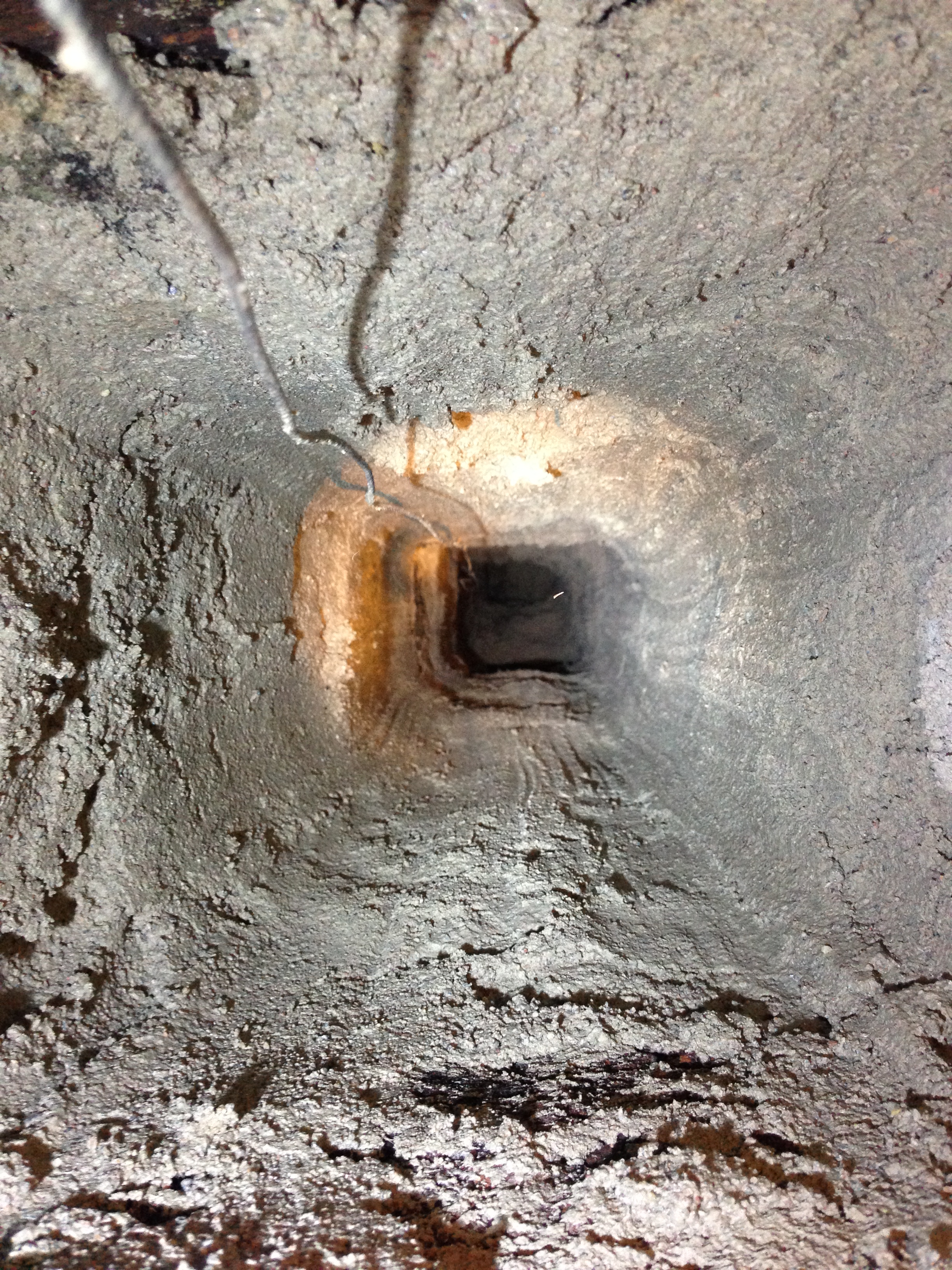 Chimney slip forming after first sweep. Cavities have been filled with mortar.